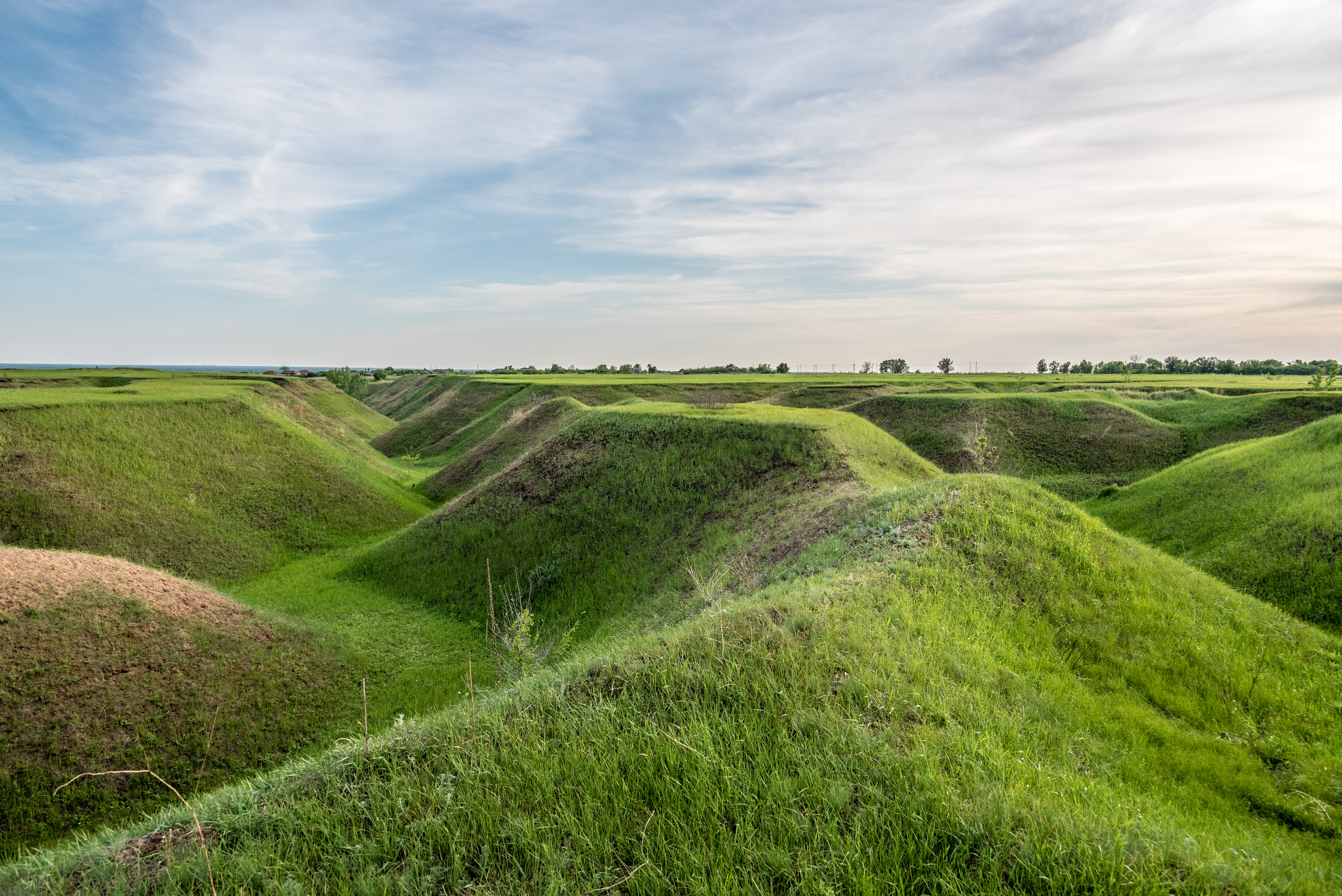 Outcrop near the village Tansirey in Voronezh Oblast, Russia This image is related to the protected area of Russia number 3610254